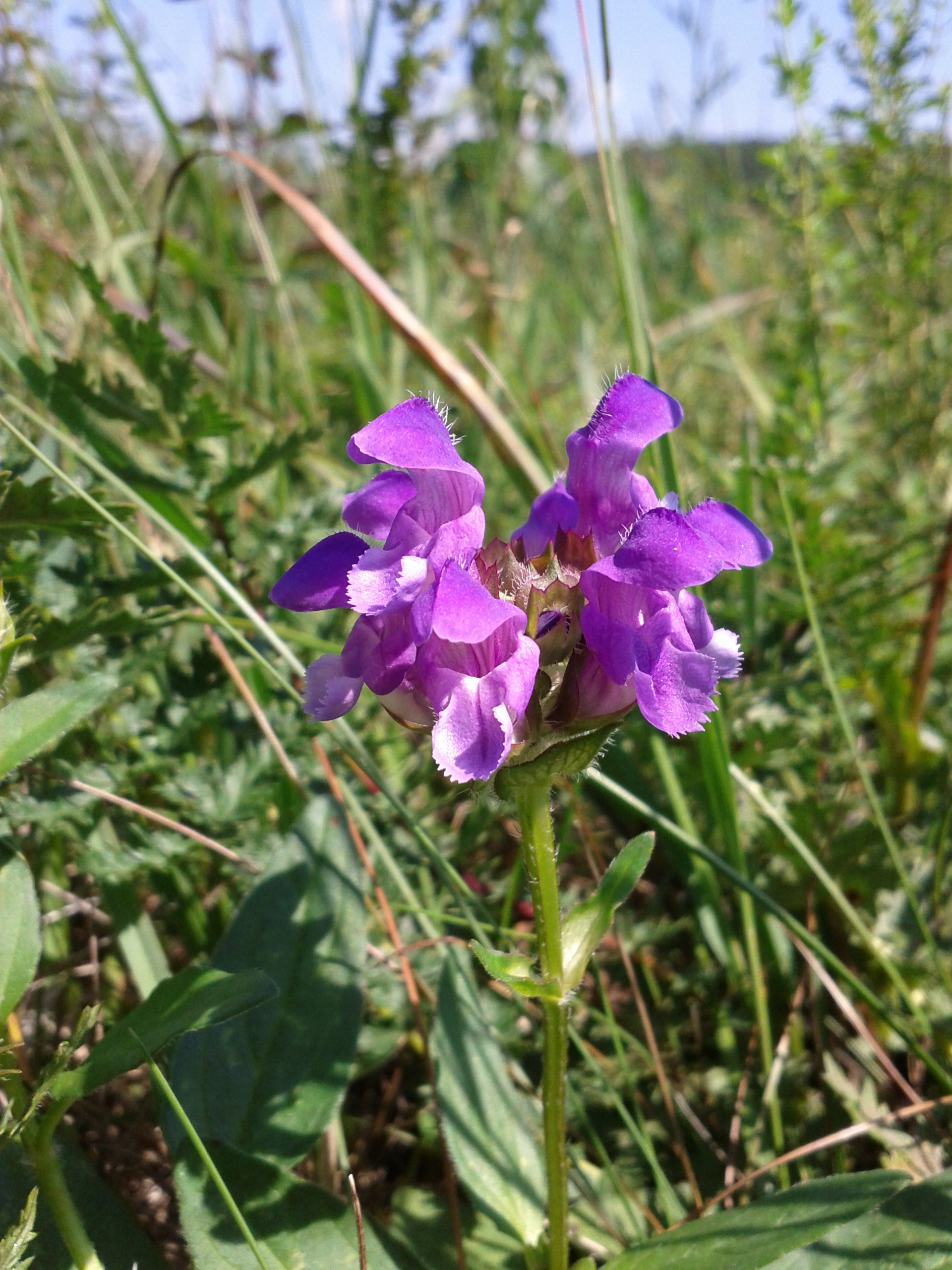 Inflorescence Taxonym: Prunella grandiflora ss Fischer et al. EfÖLS 2008 ISBN 978-3-85474-187-9 Location: Stetter Berg, district Korneuburg, Lower Austria - ca. 250 m a.s.l. Habitat: semi-dry grassland